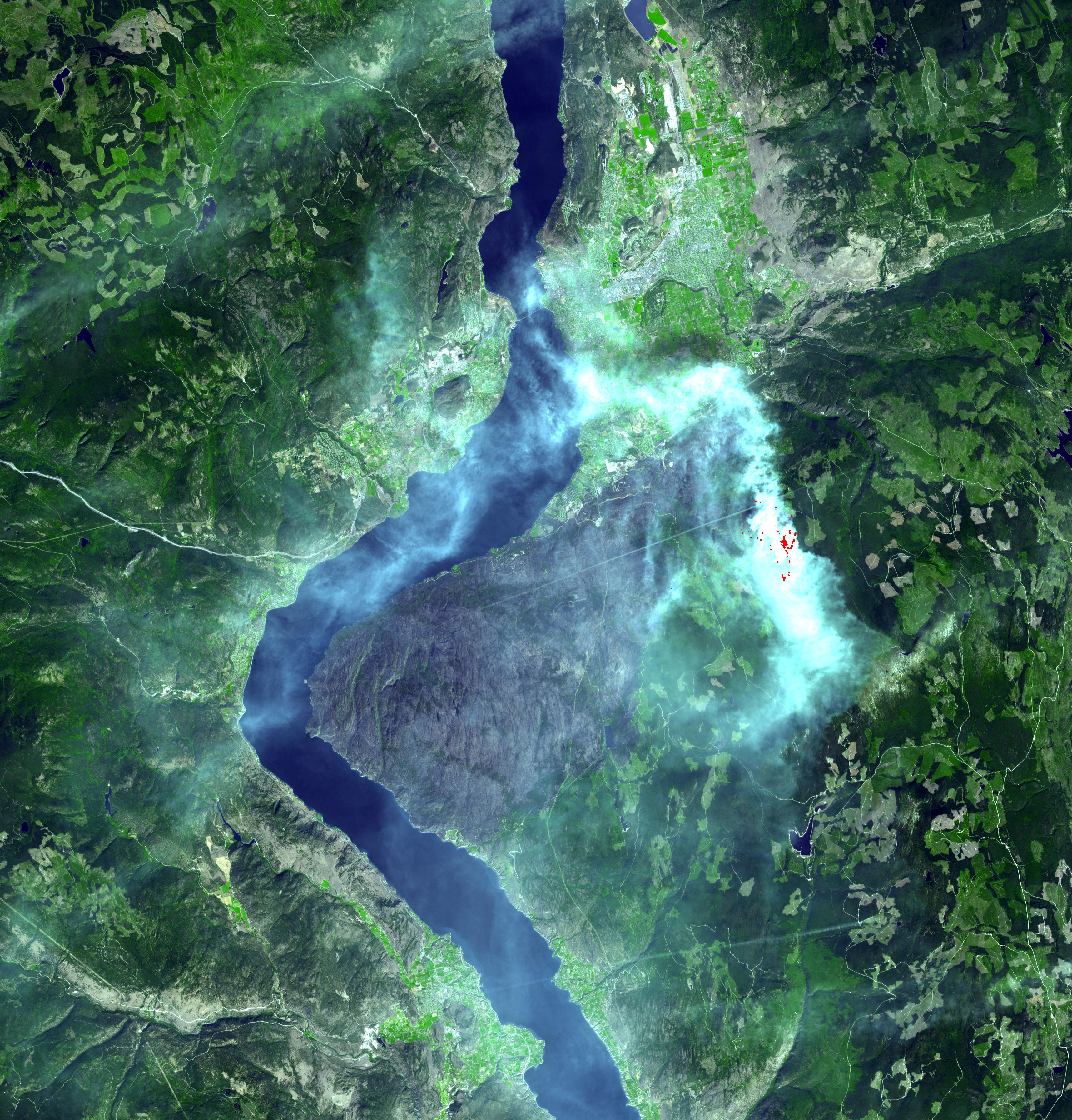 The ASTER image covers an area of 51.5 x 53.8 km, and was acquired September 2, 2003. The image is a simulated true color composite, with the active fires highlighted in red from ASTERÔÇÖs infrared bands. This image is located at 49.9 degrees north latitude, 119.4 degrees west longitude.